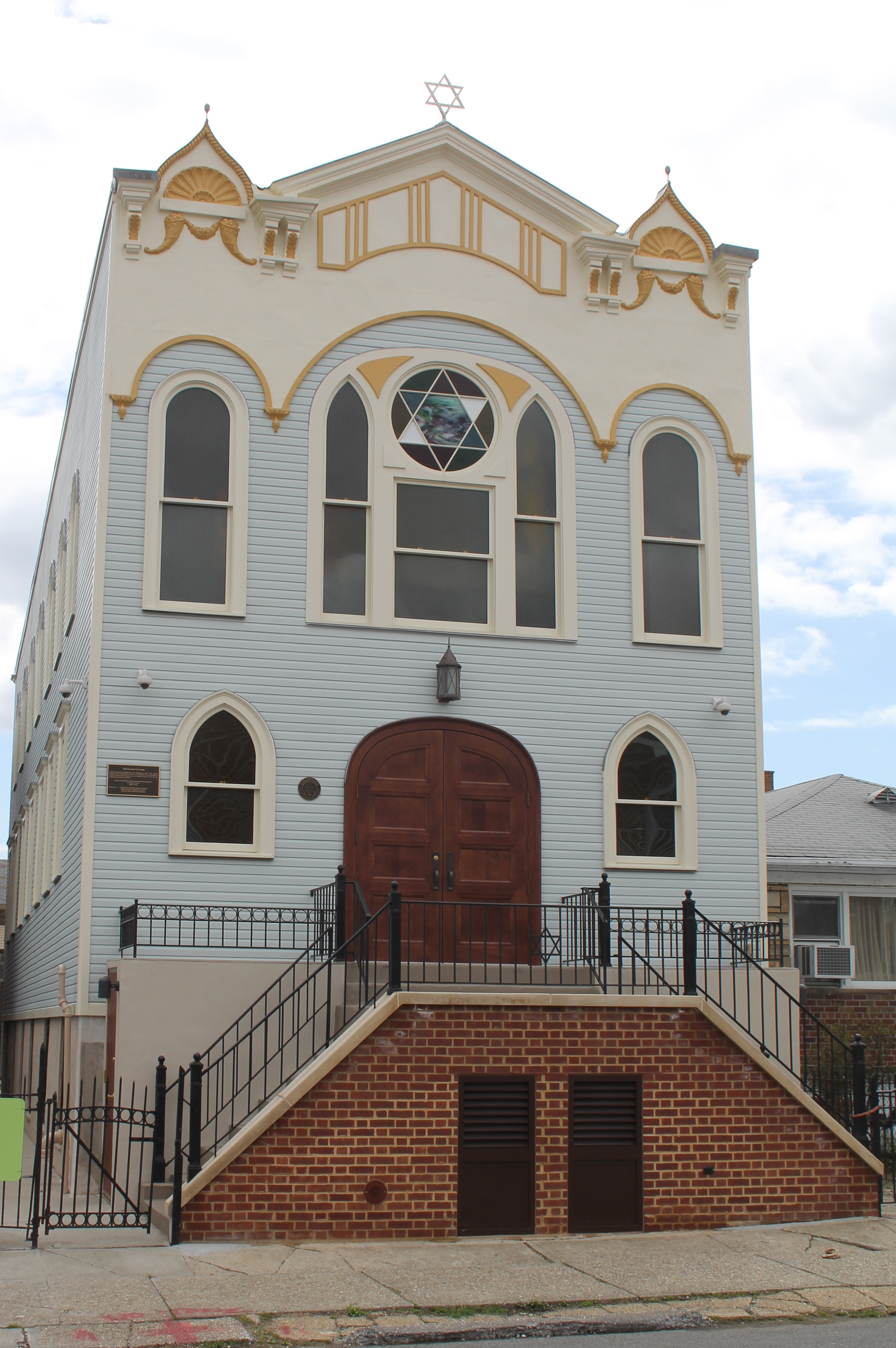 Congregation Tifereth Israel synagogue, located at 10920 54th Ave., Corona, NY 11368, USA. One of the oldest synagogues in the New York City borough of Queens, completed in 1911 and on the National Register of Historic Places.